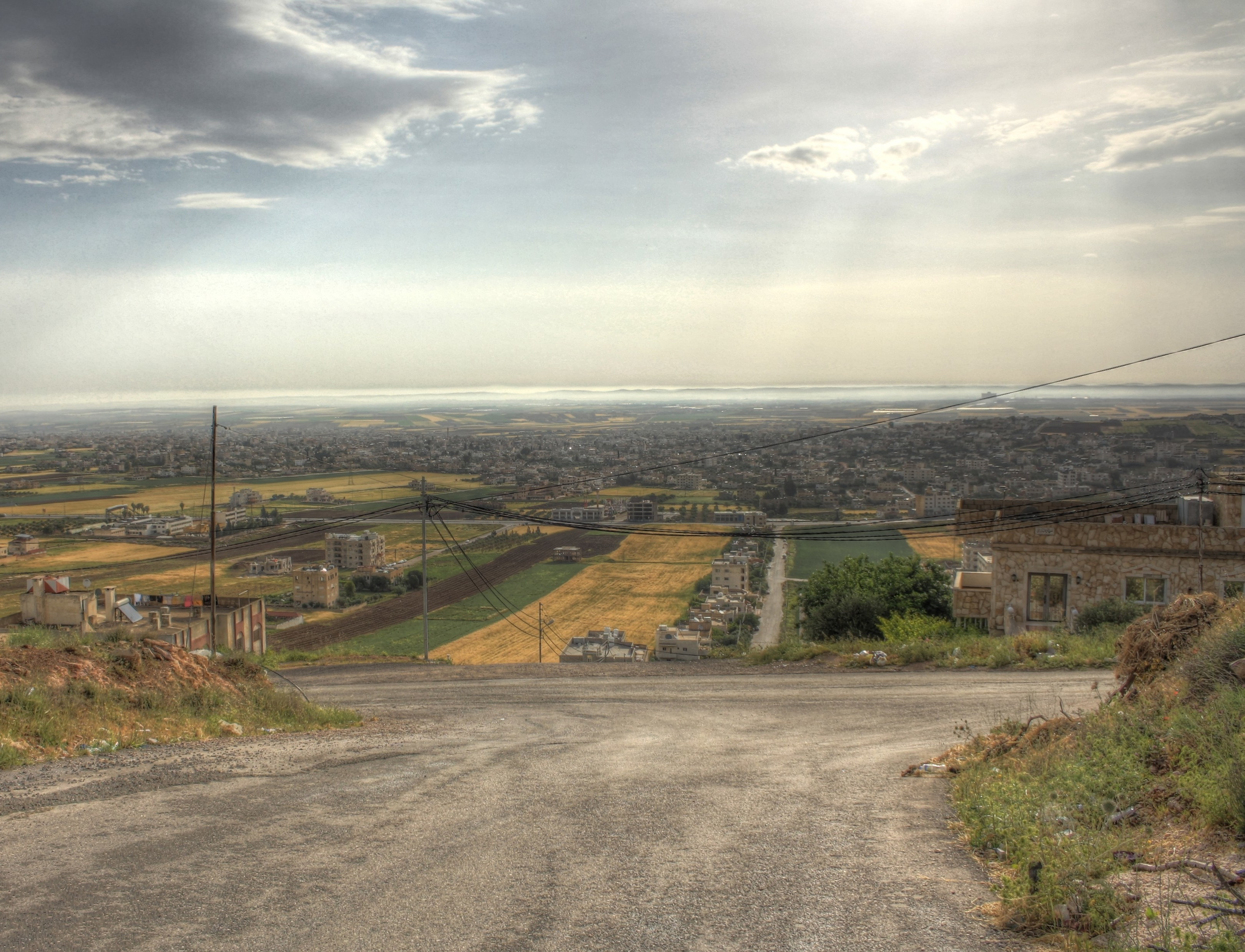 A rainy day late April 2018 Aidoun heightsTemplate:Wiki Loves Earth Jordan